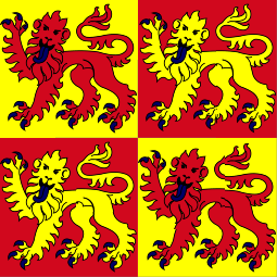 the banner of the Kings of Gwynedd (Aberffraw dynasty) 12th and 13th Centuries.